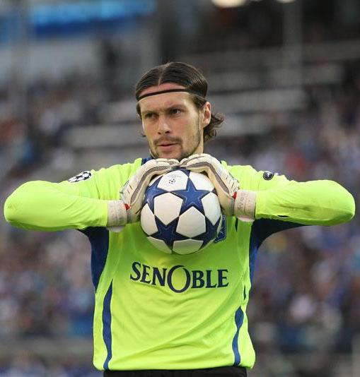 Olivier Sorin